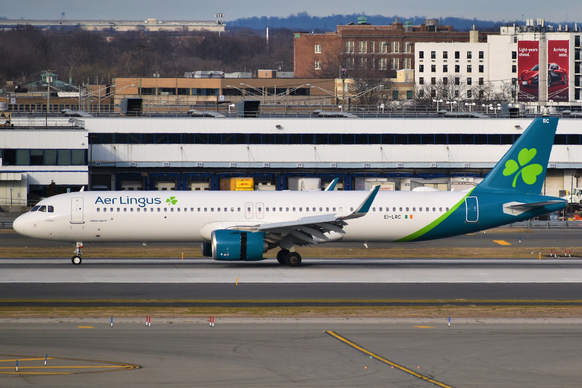 An Aer Lingus Airbus A321neo is slowing down on Runway 31R at John F. Kennedy International Airport after arriving from Shannon Airport as Flight EI111.